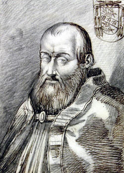 Antonio Maria Ciocchi del Monte